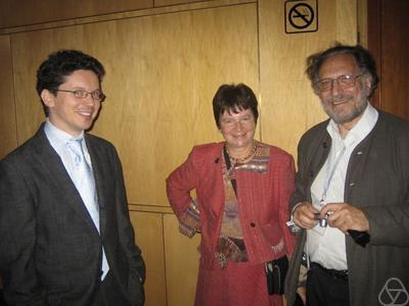 Wendelin Werner (left), Max Karoubi (right), ICM Madrid 2006